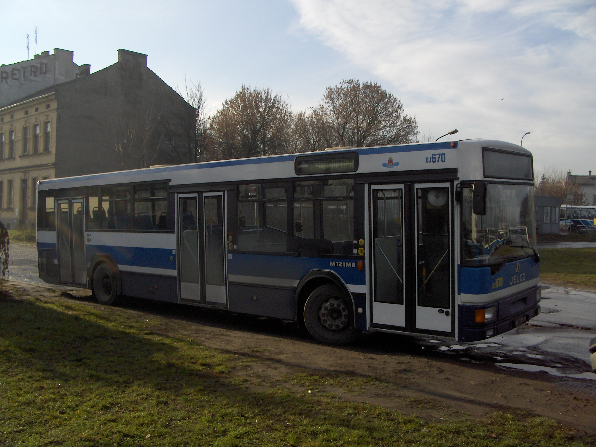 Jelcz M121MB bus (#DJ670) in Kraków, Poland. Built 2000, MPK Kraków operator.